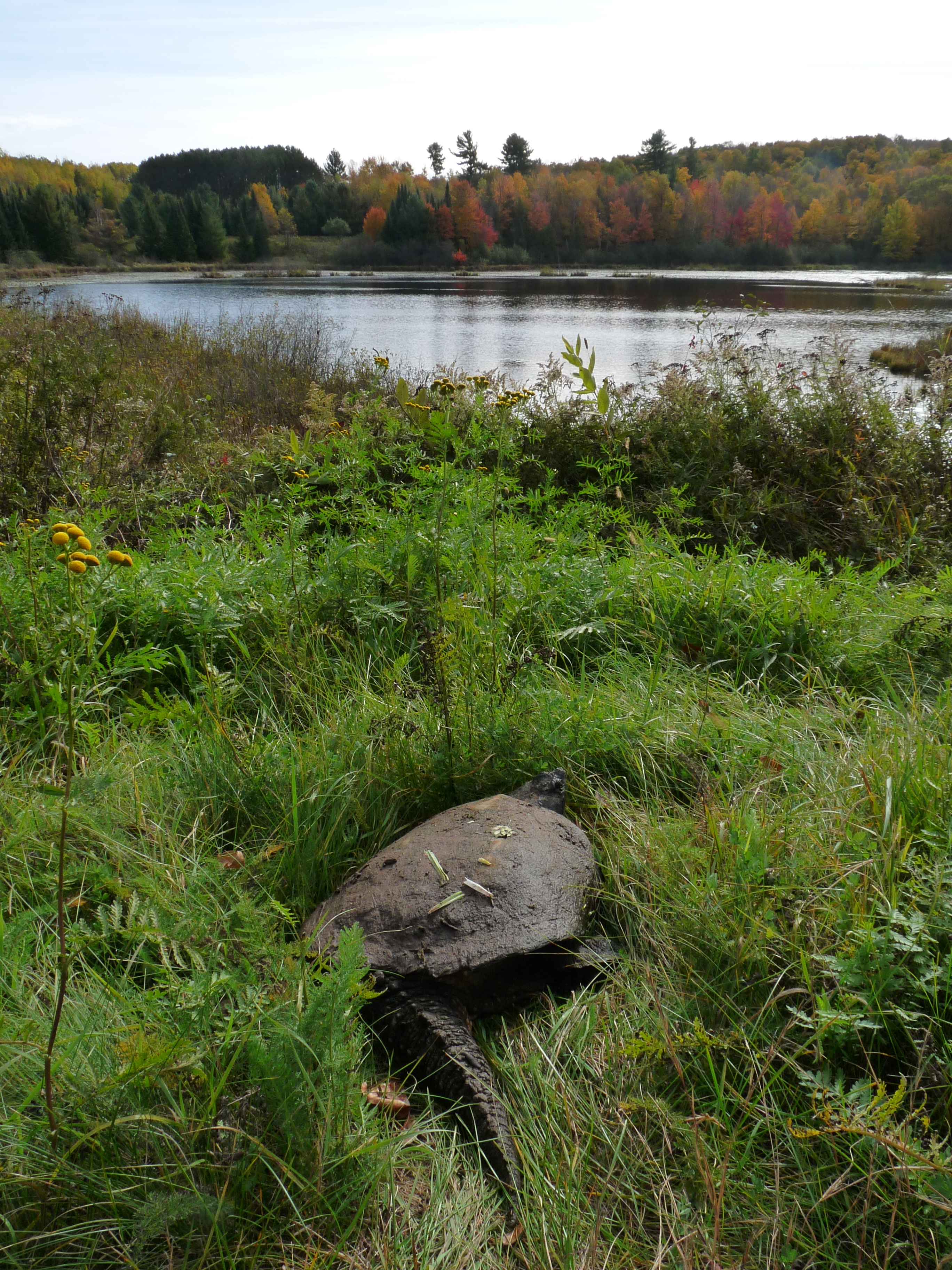 Foss Lake is just north of Perkinstown in north-central Wisconsin. The creature in the foreground is a snapping turtle who had crawled up onto County M nearby. The lake is actually closer than it appears in the photo, but I had to zoom out to include the turtle. The zoom also makes the terrain look flatter than it really is.